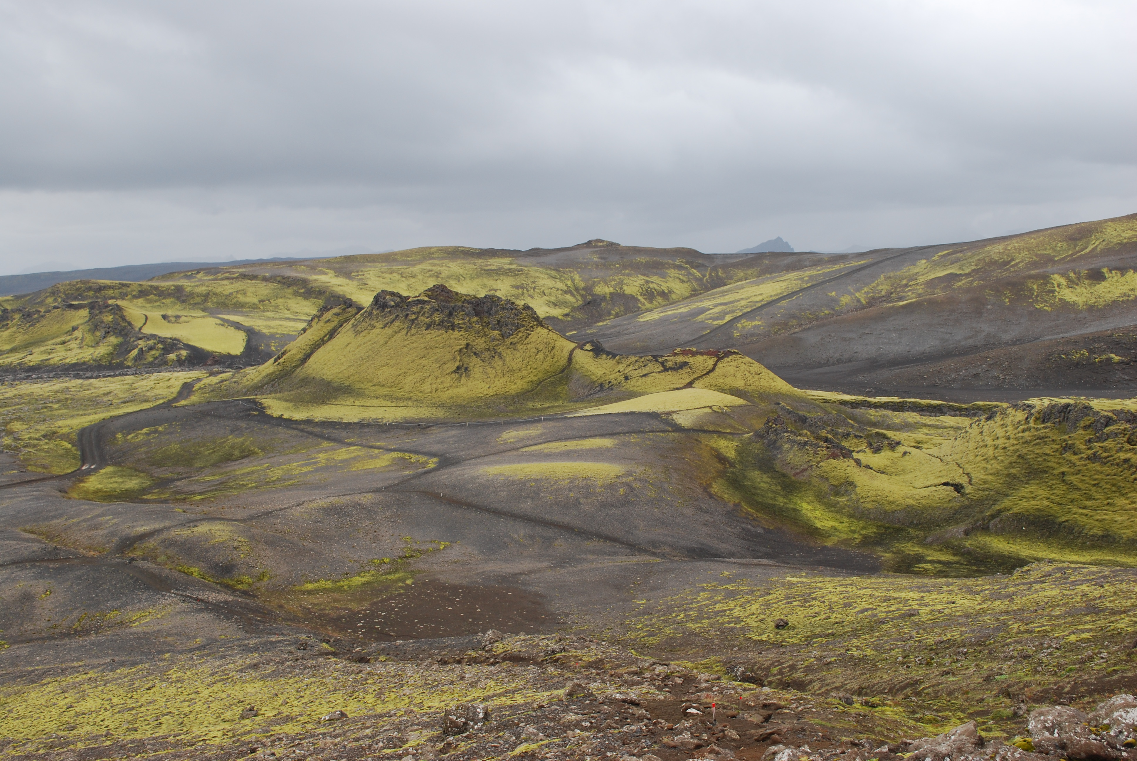 Sight to the central fissure of Laki volcano, Iceland